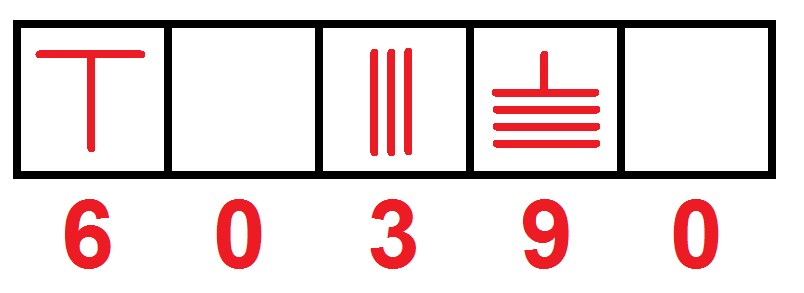 This is an original work based on the example provided by Luke Hodgkin's A History of Mathematics : From Mesopotamia to Modernity: From Mesopotamia to Modernity, page 86. The number, 60930, is the same as the one depicted in the book.